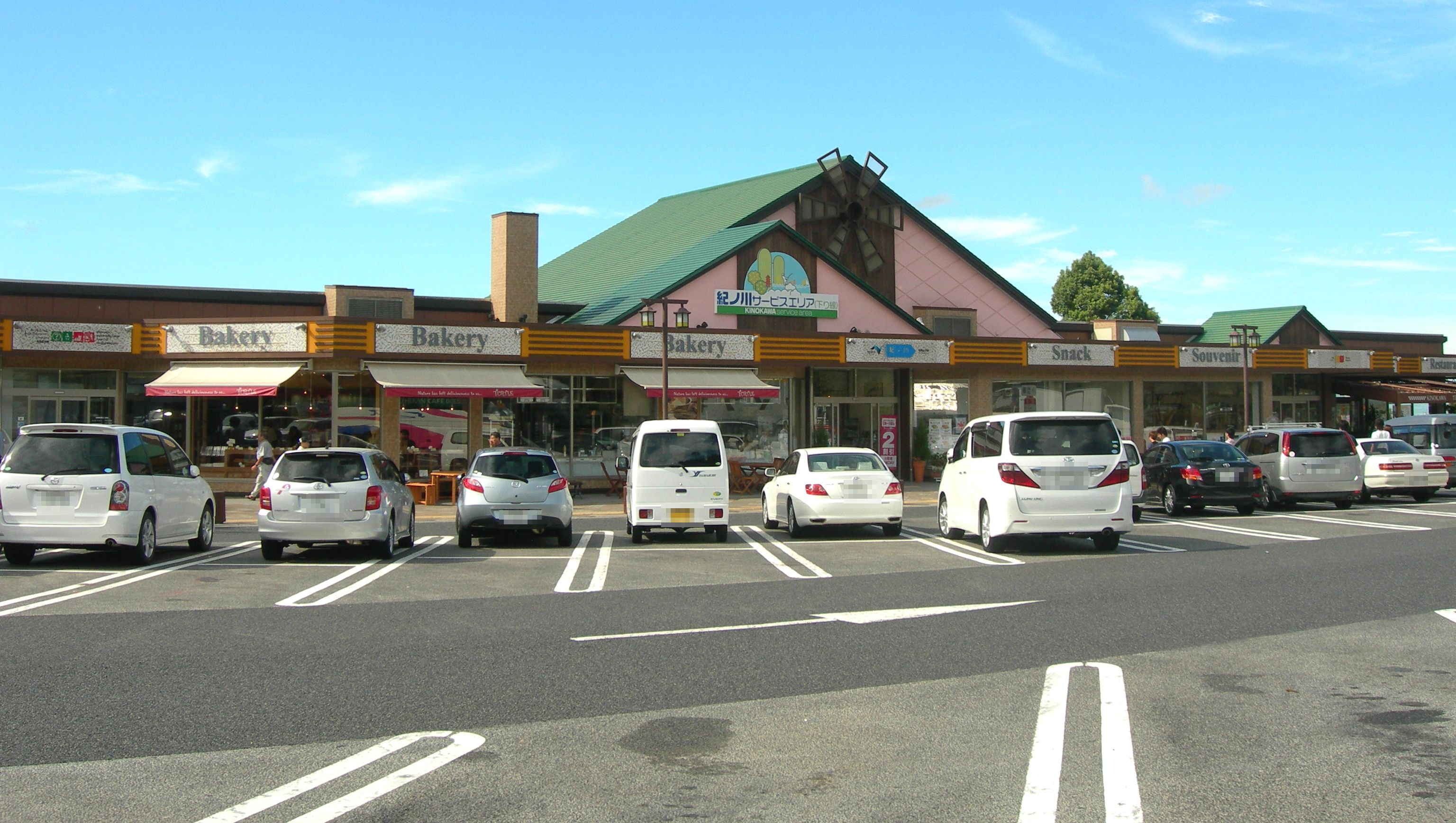 Kinokawa Service Area on the Hanwa Expressway outbound line